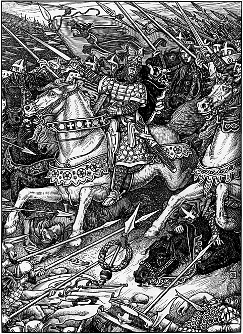 Rhead, George Wooliscroft & Louis. "Arthur Leading the Charge at Mount Badon" from Tennyson, Alfred. Idylls of the King: Vivien, Elaine, Enid, Guinevere. New York: R. H. Russell, 1898. This picture illustrates the lines from Tennyson's "Lancelot and Elaine" idyll: . . . and on the mount Of Badon I myself beheld the King Charge at the head of all his Table Round . . . .